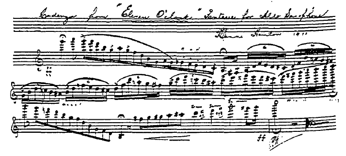 Saxist H. Benne Henton’s alto sax cadenza to his own composition Eleven O’Clock, published in C. G. Conn’s Musical Truth in 1912, demonstrating his use of the altissimo register.